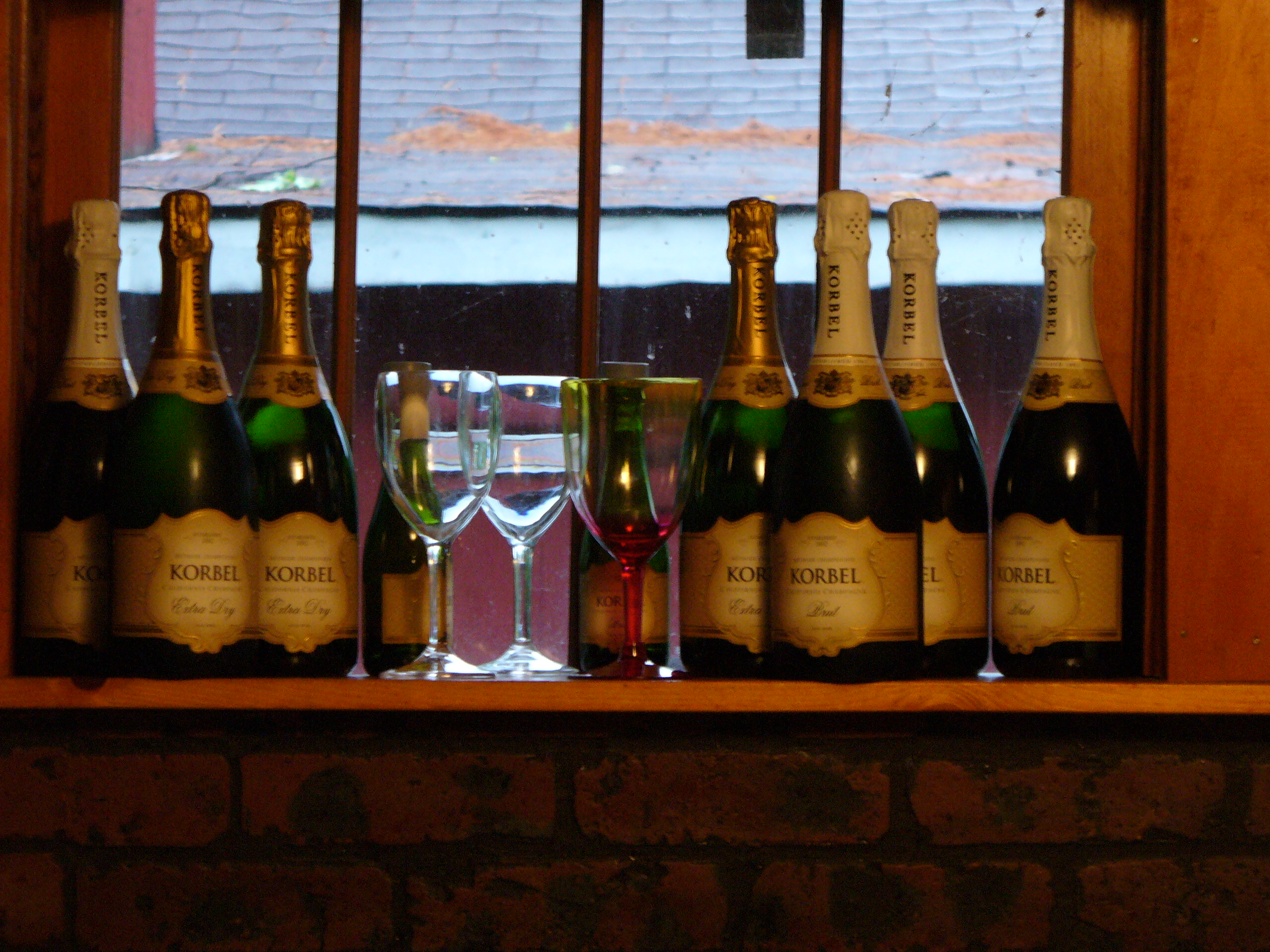 Several bottles of Korbel champagne.